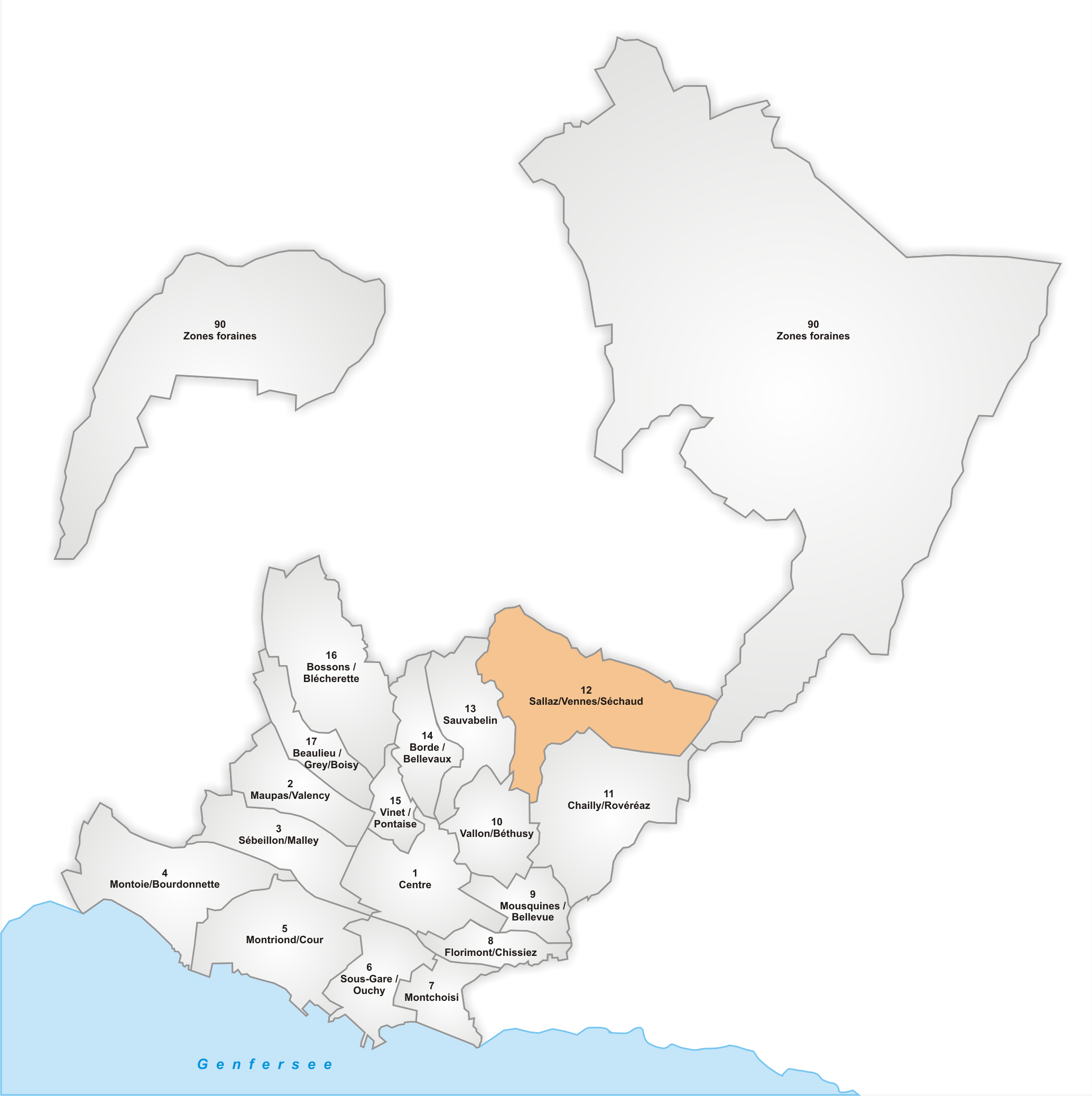 Lausanne Quarter 12